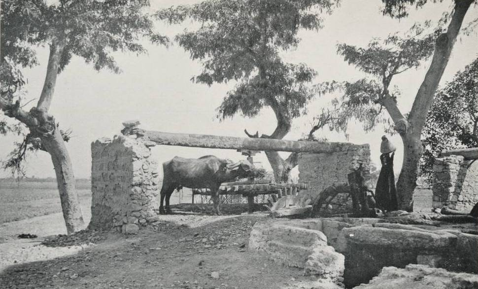 An ox stands at a large geared mechanism used to pump water.